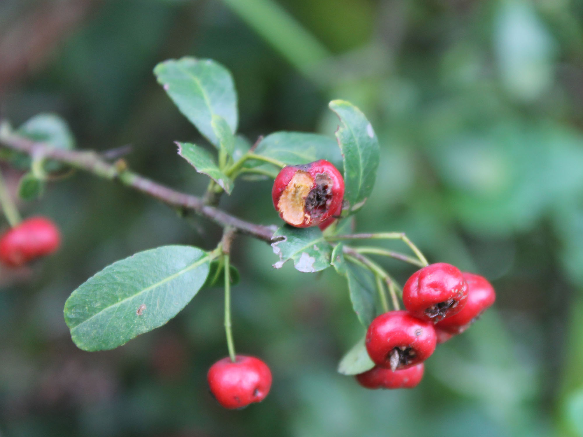 Pyracantha crenulata fruit in Nepal.